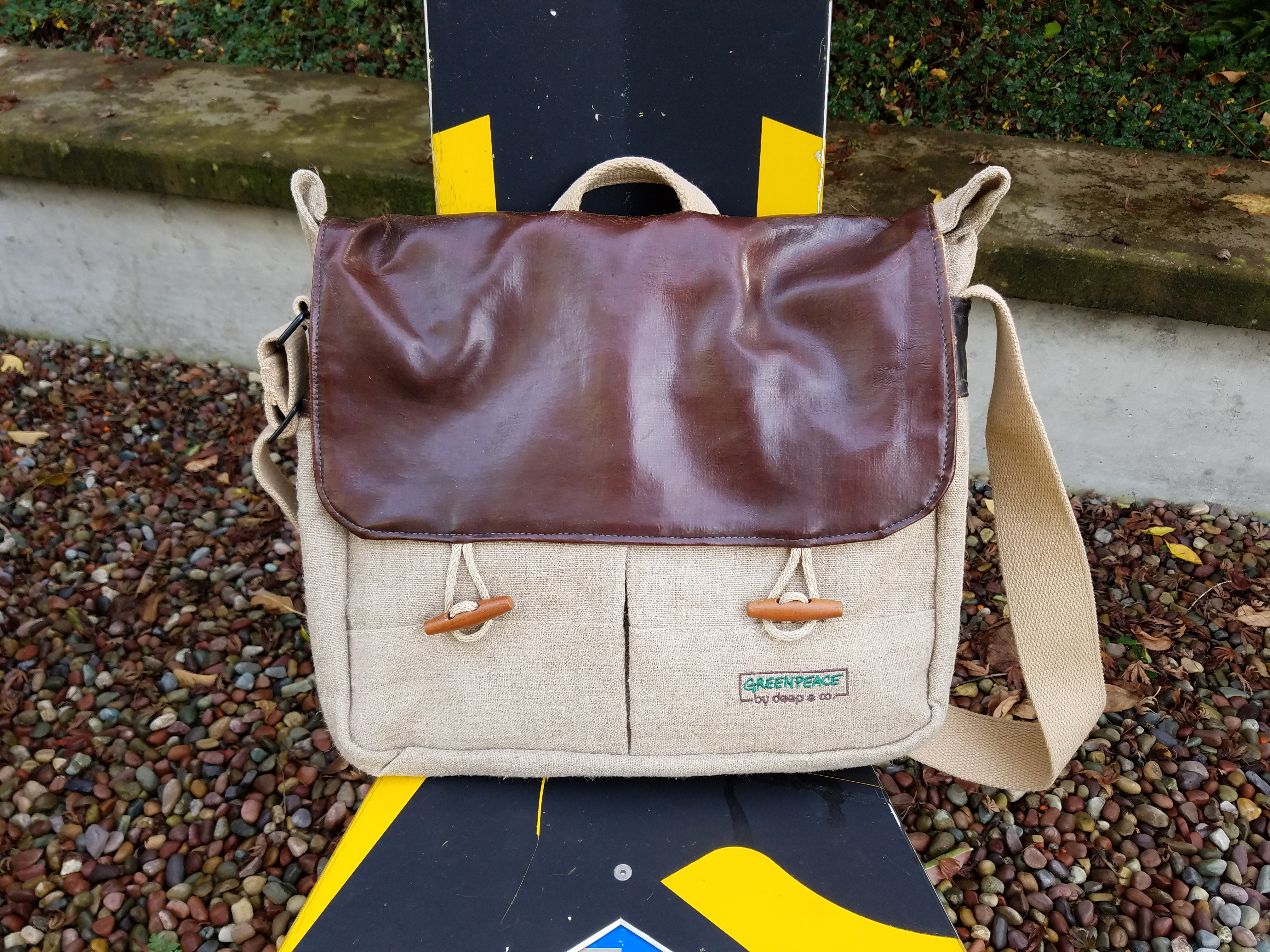 GREEN PEACE ACTIVIST BAG by Julie Lewis, DeepEco. The photo is an award winning example of "Design with Memory of the user" strategy. The goal is to reduce the amount of consumption by making products useful and desirable for a longer period of time. The method employed is to develop a strong relationship between the user and the product.